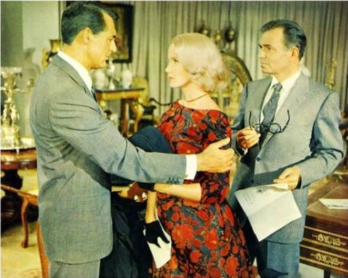 Photo of Cary Grant, Eva Marie Saint & James Mason from the film North by Northwest (1959). See also film still. No copyright notice.